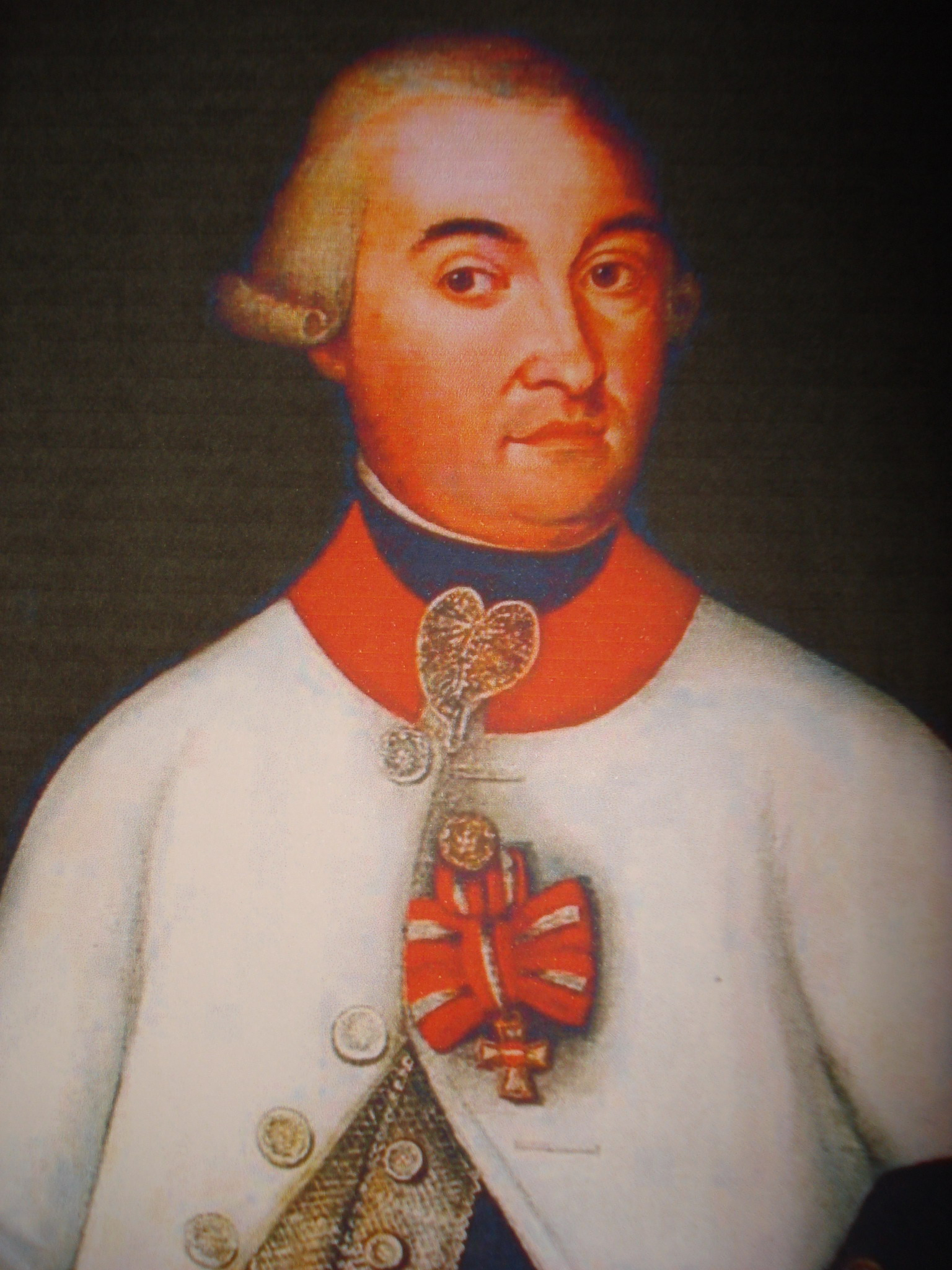 Baron Adam Franjo Burić /Adam Francis Burich/ (1732-1803), Croatian nobleman and general of the Habsburg Monarchy imperial armyHrvatski: Adam Franjo barun Burić (1732-1803), hrvatski plemić i general carske vojske Habsburške Monarhije